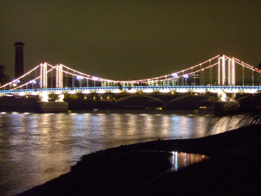 Chelsea Bridge, London